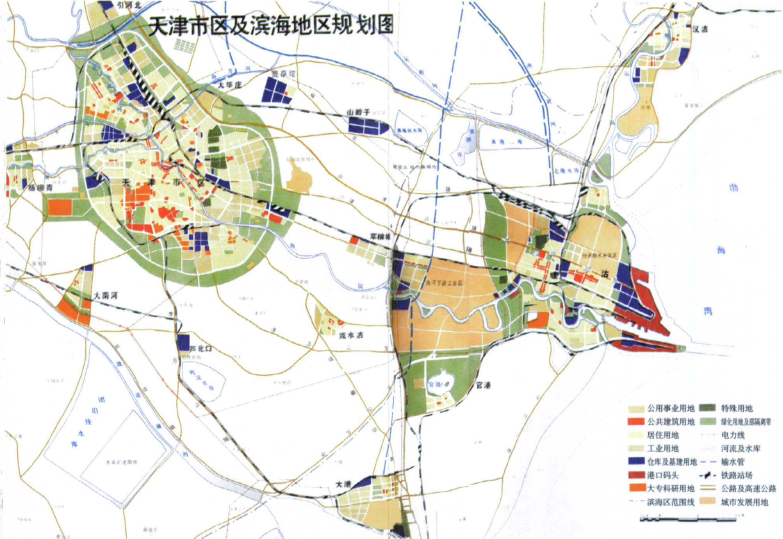 the documents from Government of Tianjin City，P.R.China in 1986